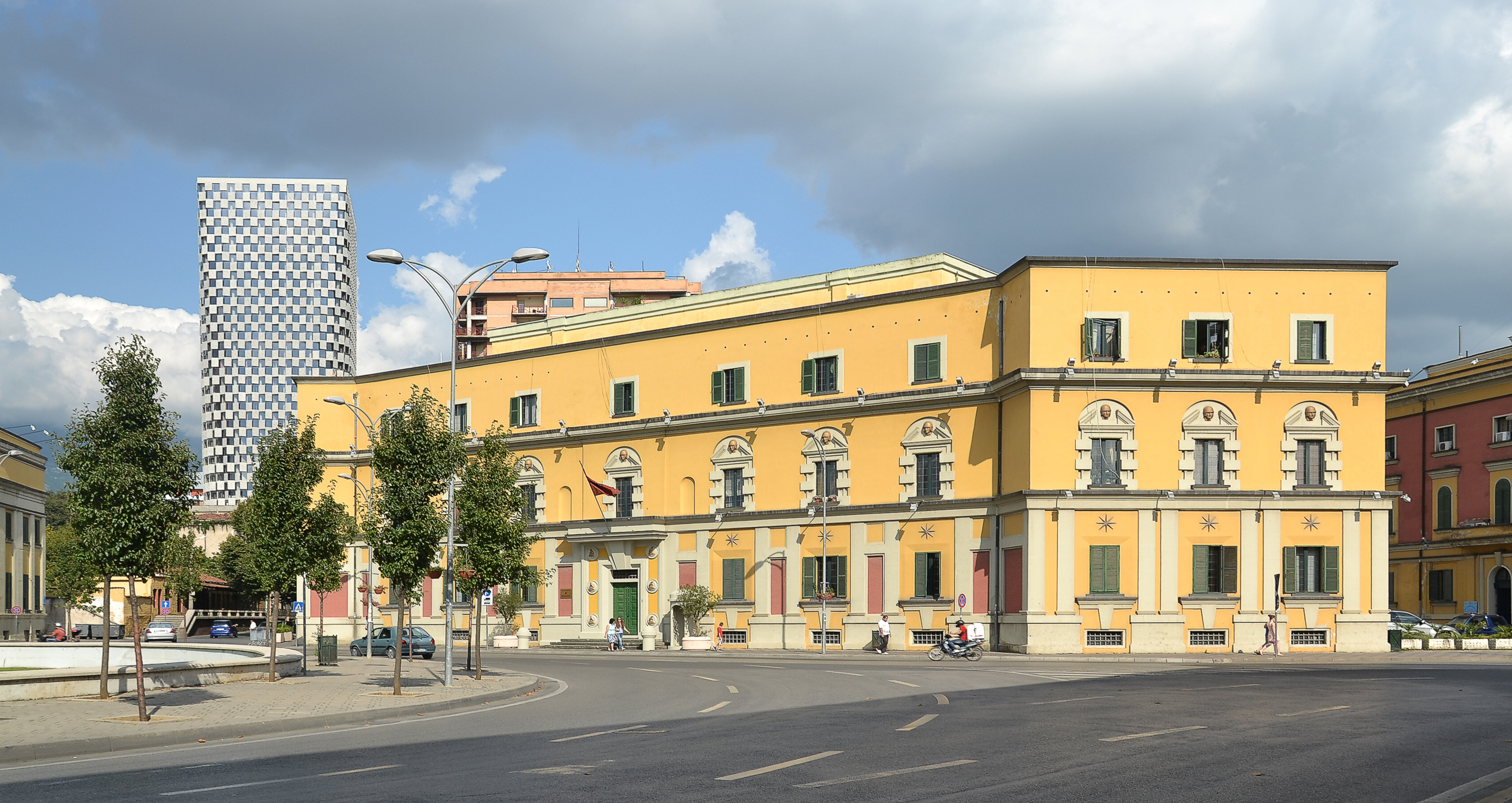 Building of the Ministry of Public Works, Transportation and Telecommunications in Tirana, Albania